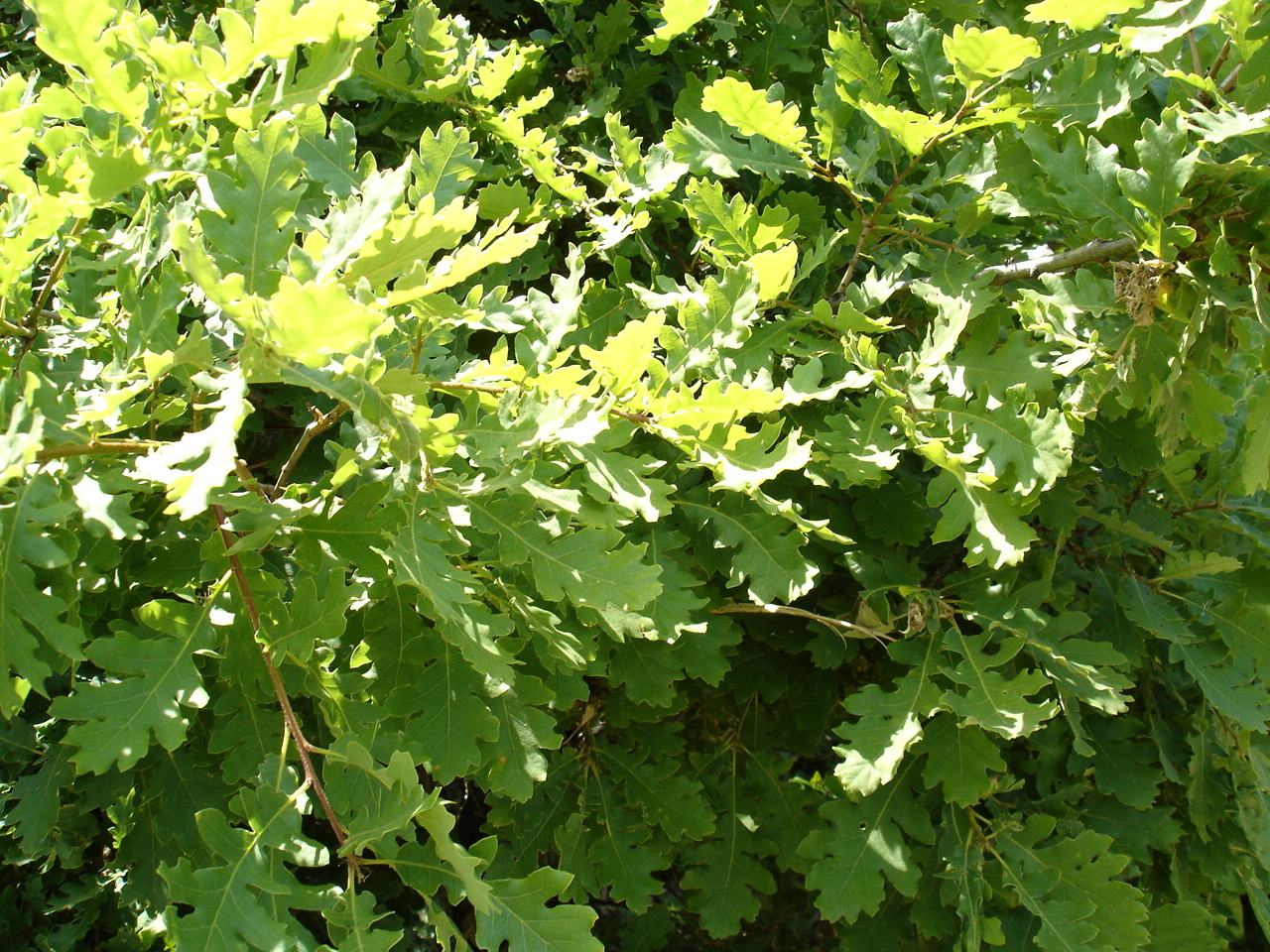 Quercus pubescens foliage, Bulgaria.